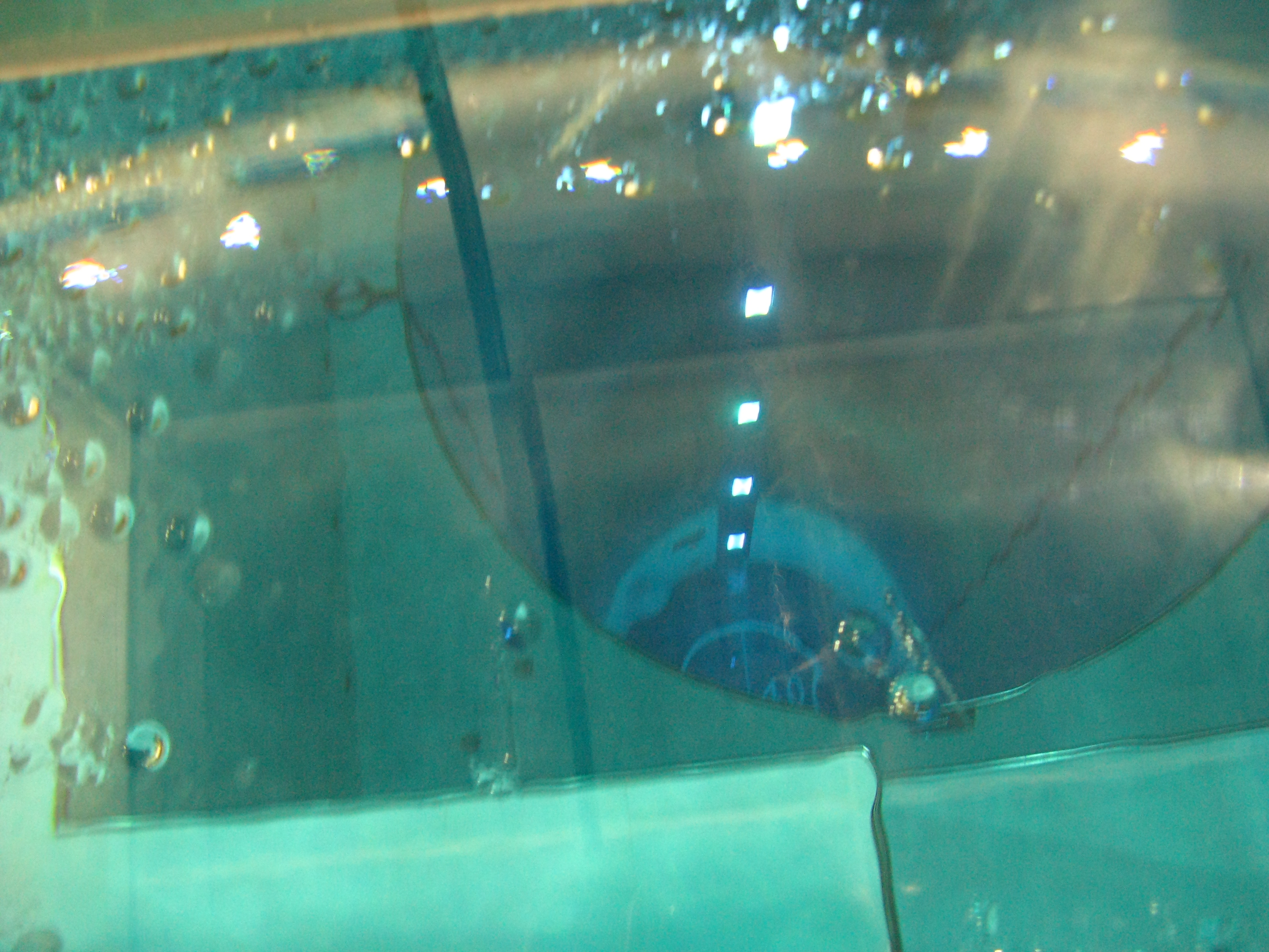 Photograph taken through a transparent tile placed along the tunnel submerged in the pool y-40. You can see the circular well that goes down to -42.15 meters.